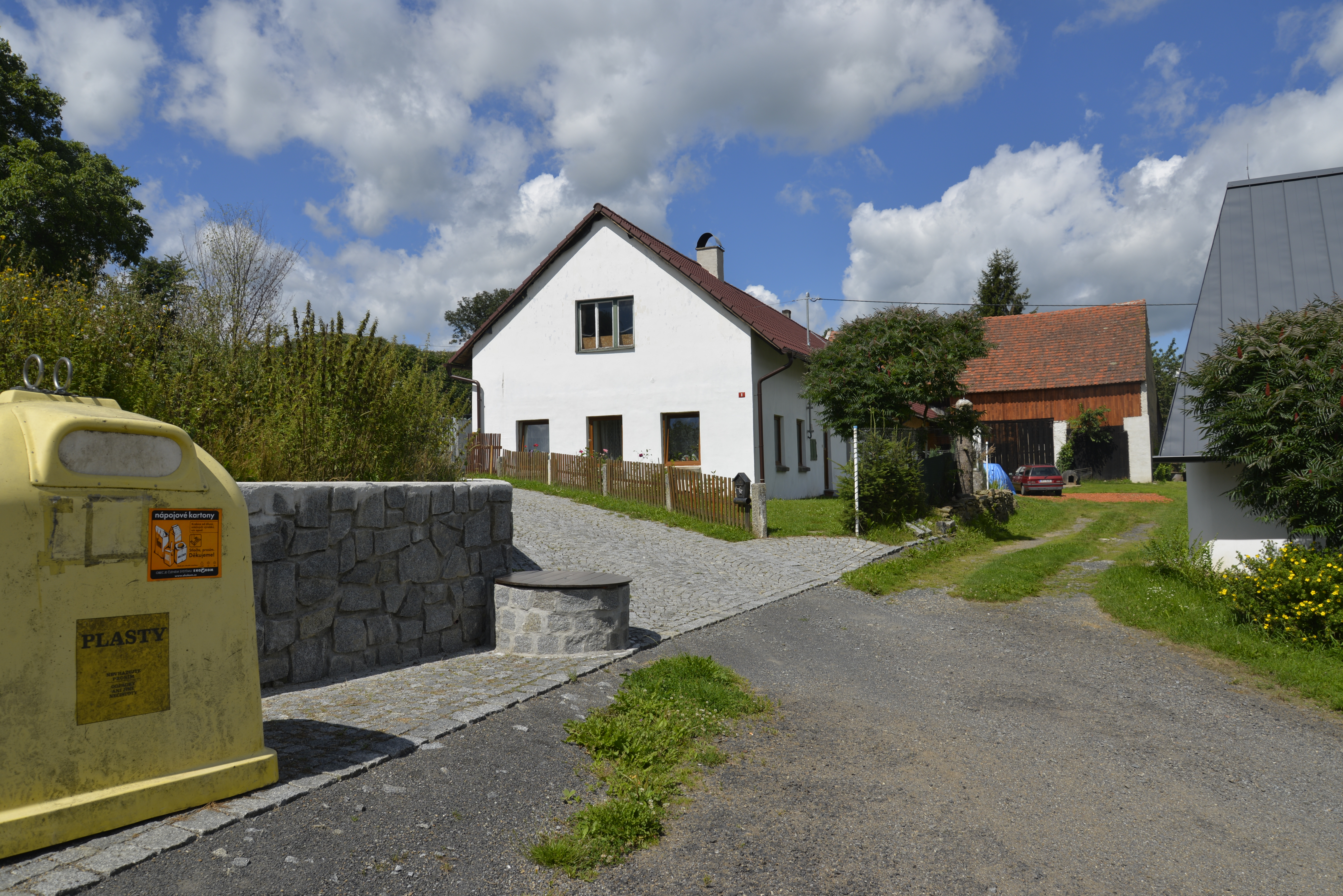 Stojanovice - small village, part of Velhartice in Klatovy District